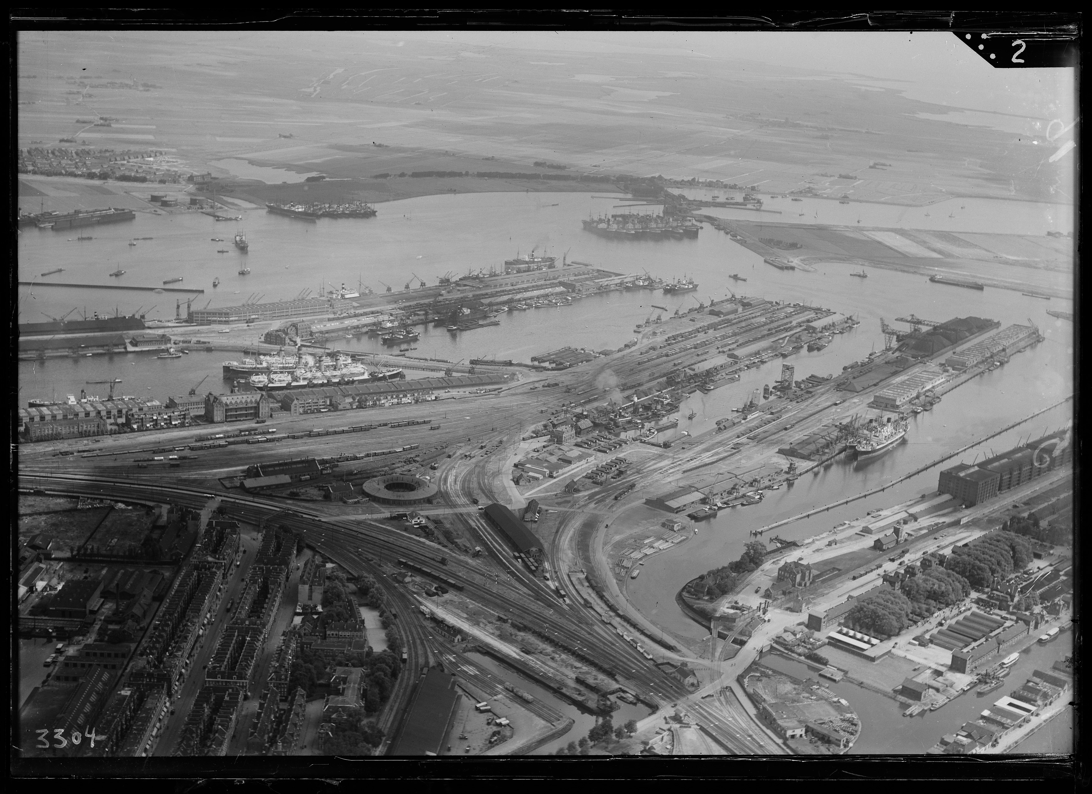 Aerial photograph of Amsterdam, The Netherlands